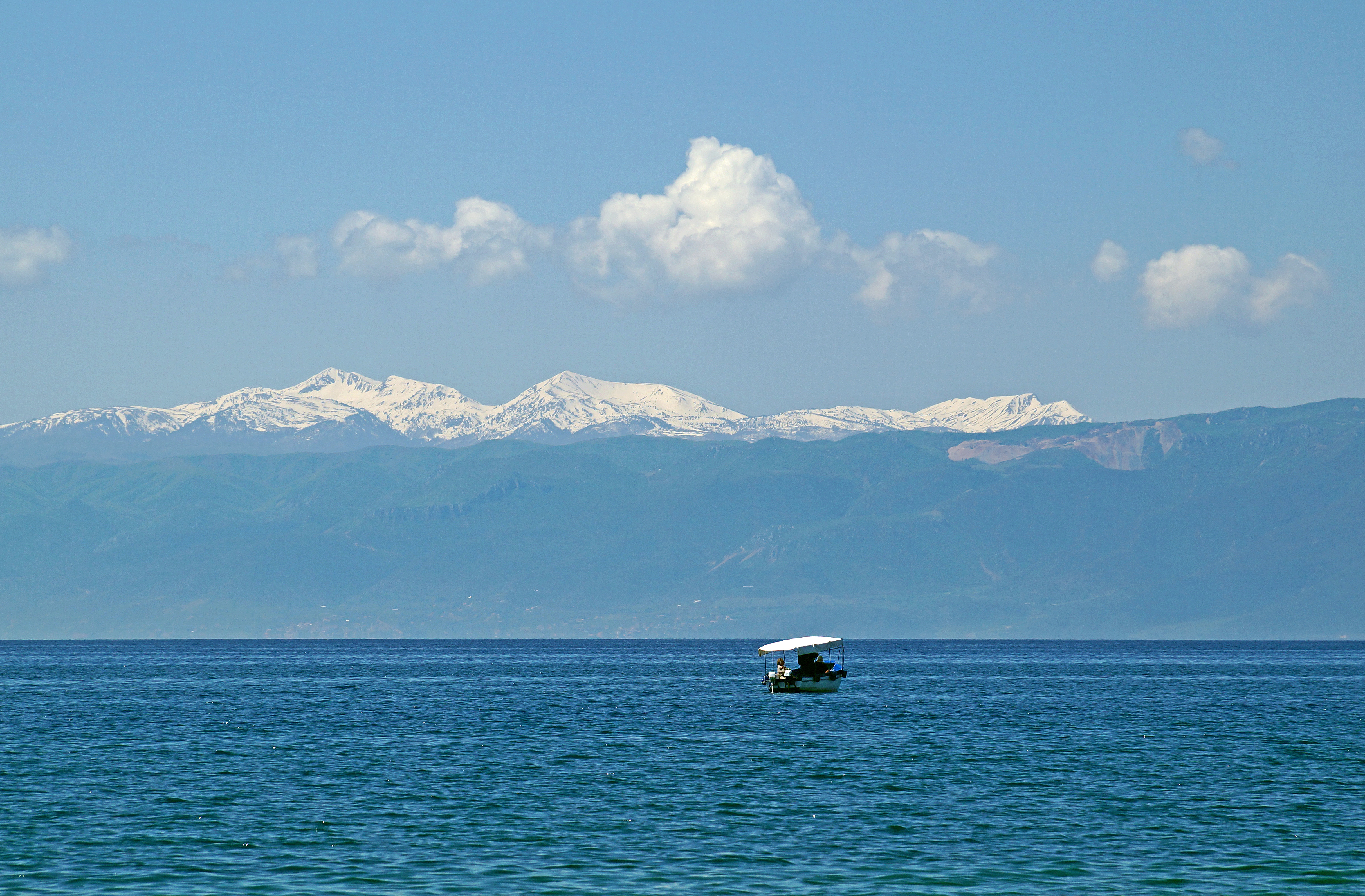 Valamarë mountain in South Eastern Albania seen from Ohrid, Macedonia